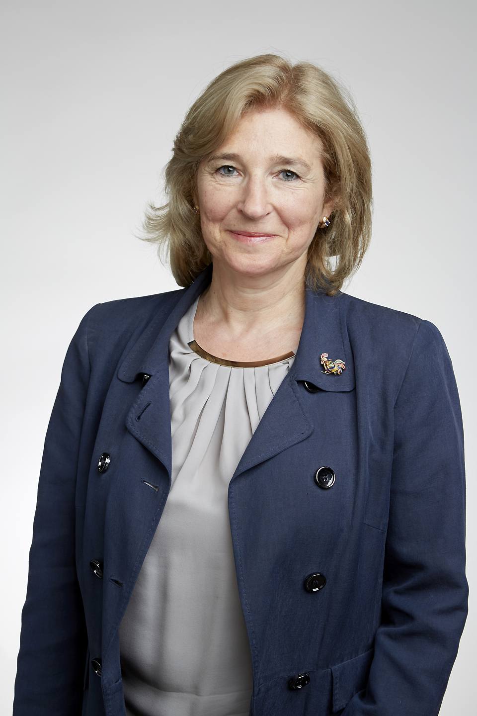 Polina Leopoldovna Bayvel FRS FREng is Professor of Optical Communications & Networks in the Department of Electronic and Electrical Engineering at University College London. She has made major contributions to the investigation and design of high-bandwidth multiwavelength optical networking. Attribution: The Royal Society